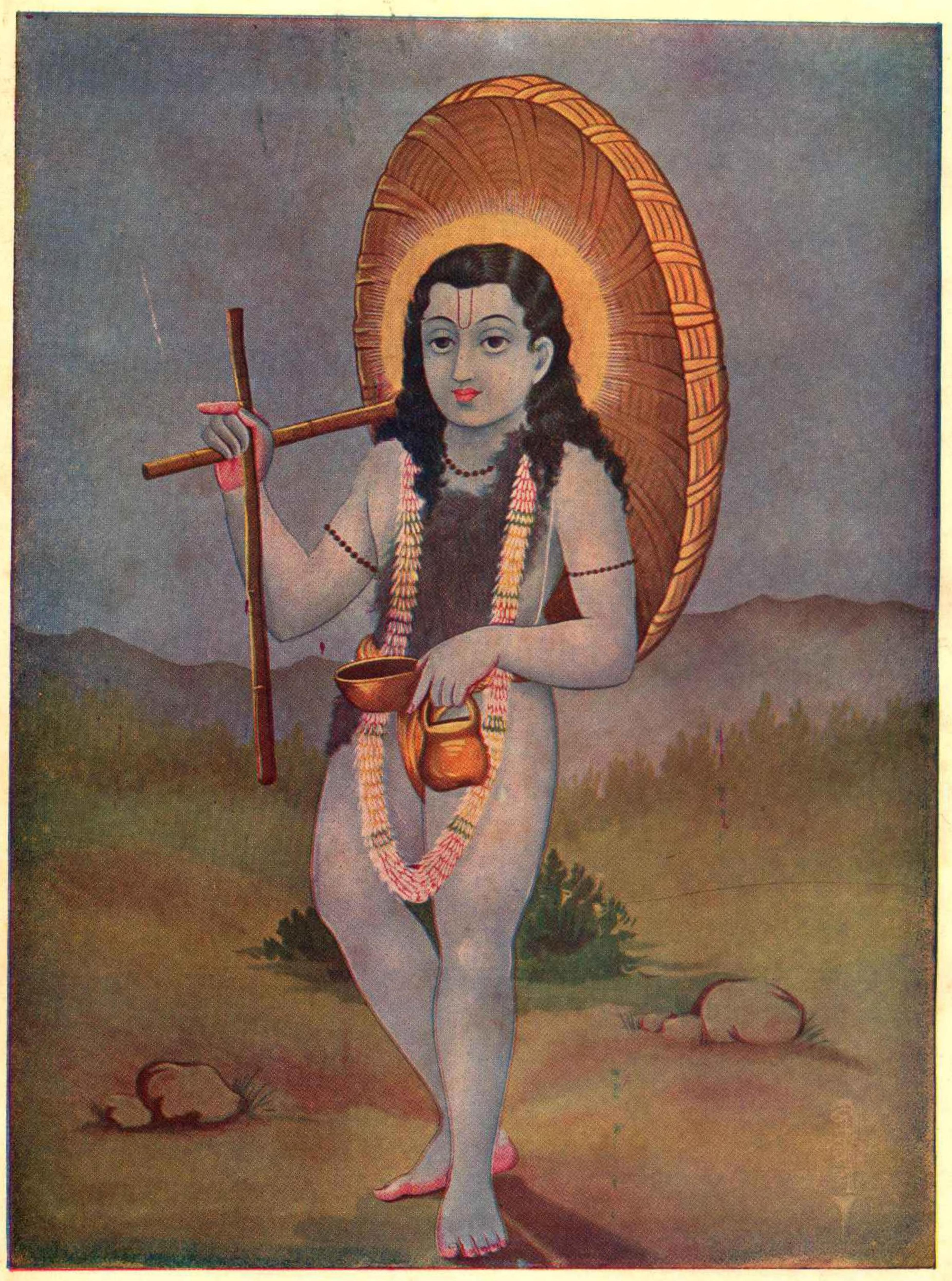 Shrimad Bhagavata Mahapurana Gita Press Gorakhpur by MahaMuni Usage Topics Sanskrit, "महामुनि का संग्रह", "Pratiek-Lucknow" Collection opensource Language Sanskrit Indological Books , 'Shrimad Bhagavata Mahapurana - Gita Press Gorakhpur.pdf' Identifier ShrimadBhagavataMahapuranaGitaPressGorakhpur Identifier-ark ark:/13960/t1bk7m619 Ocr language not currently OCRable Ppi 600 Scanner Internet Archive HTML5 Uploader 1.6.3